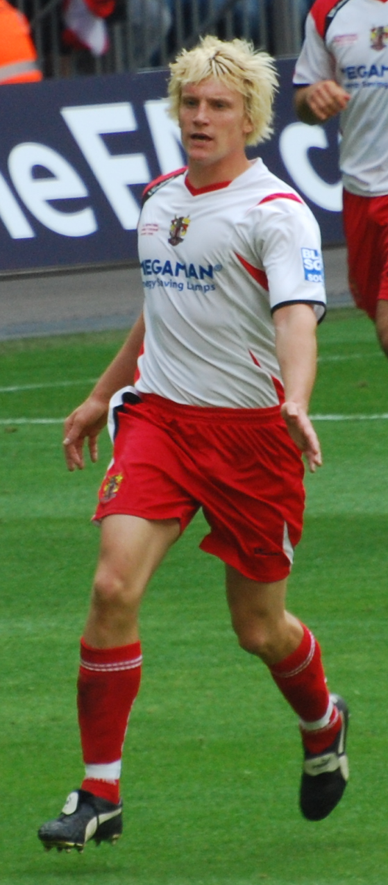 Mark Roberts. Image cropped from original at flickr.